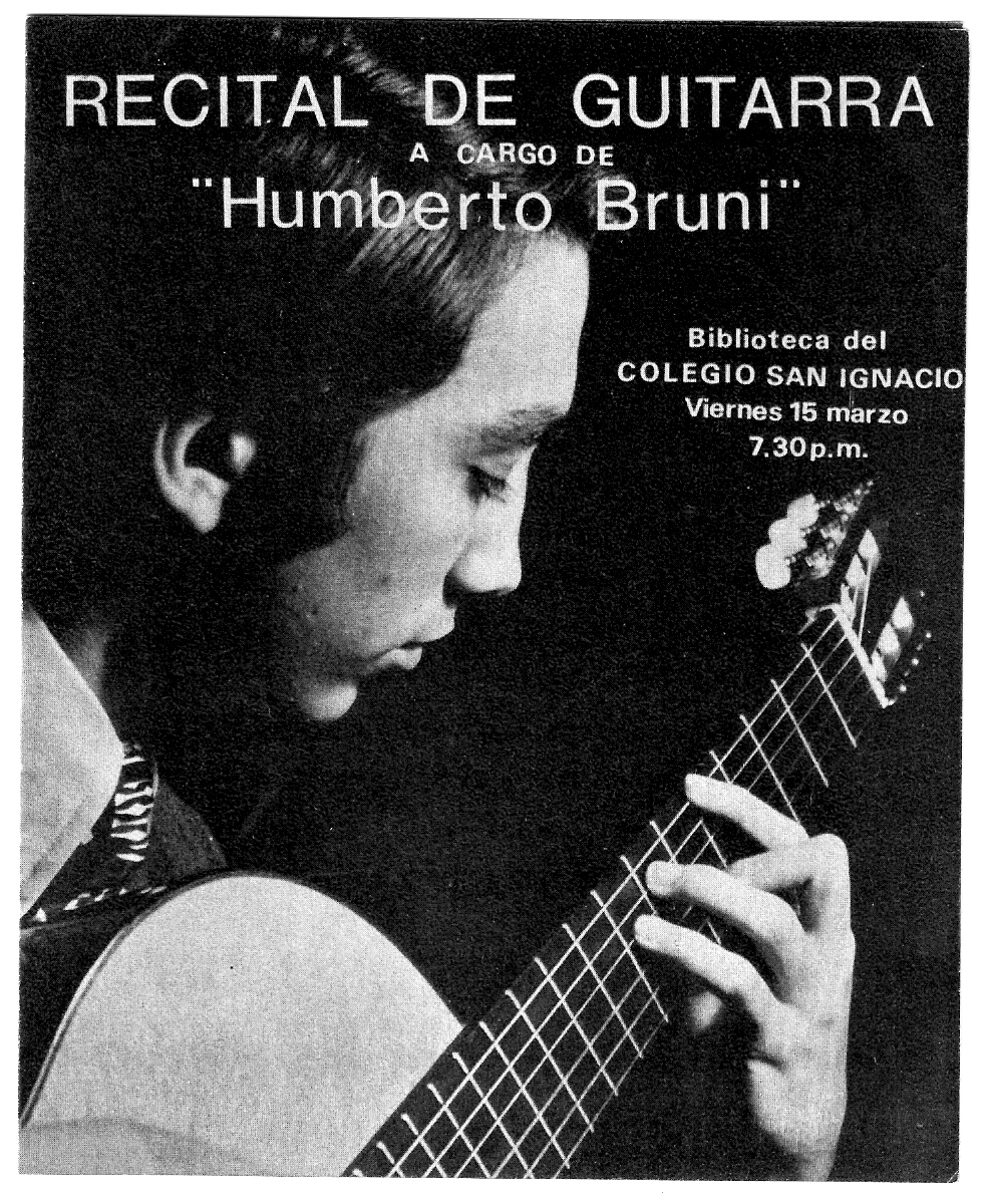 Humberto Bruni, First Concert, Age 15